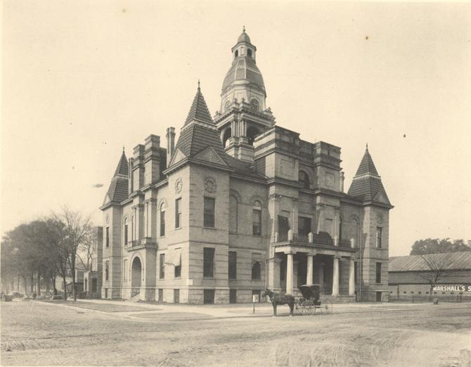 "Court House - Selma."